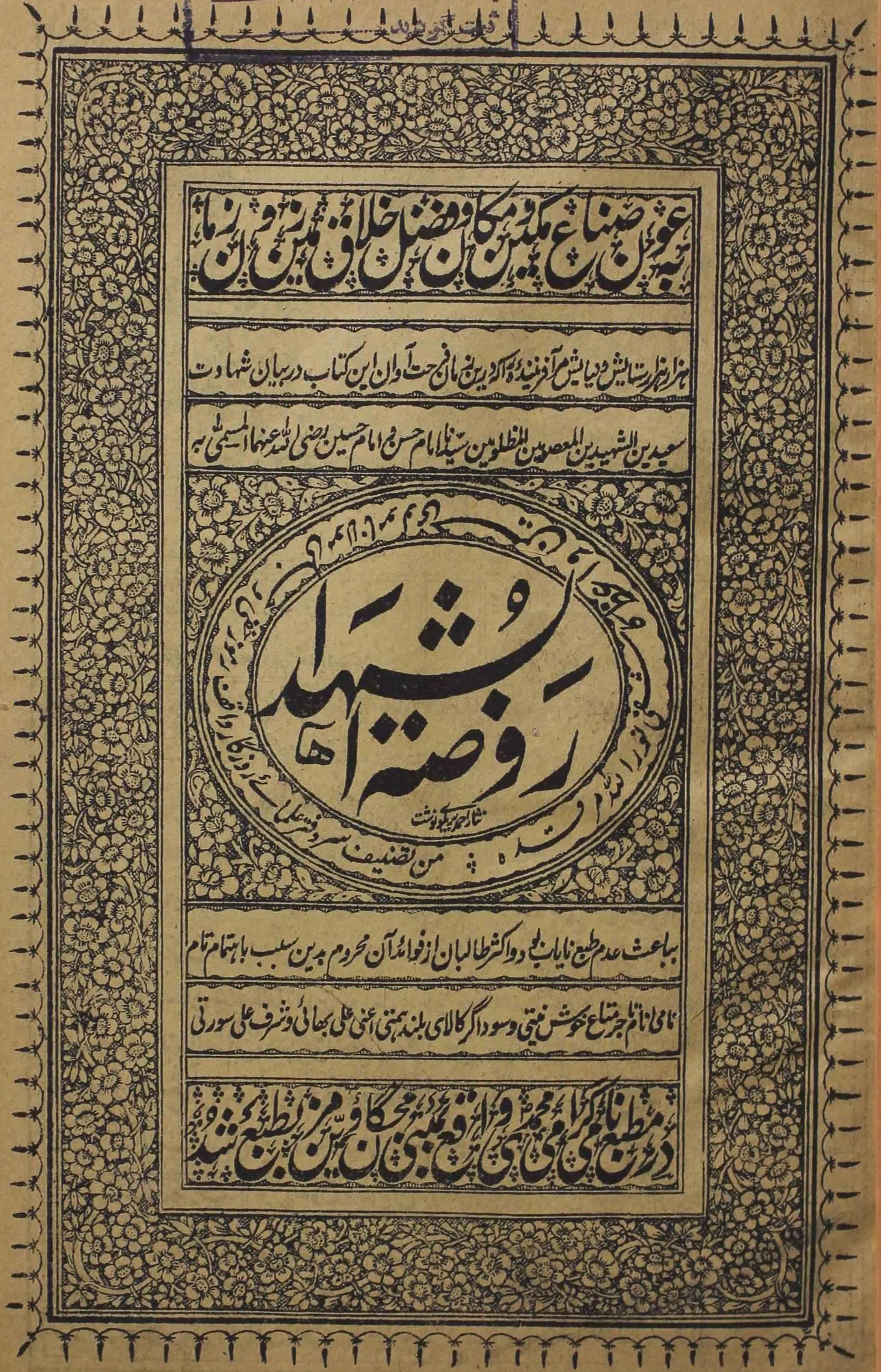 Rawzat al-Shuhada